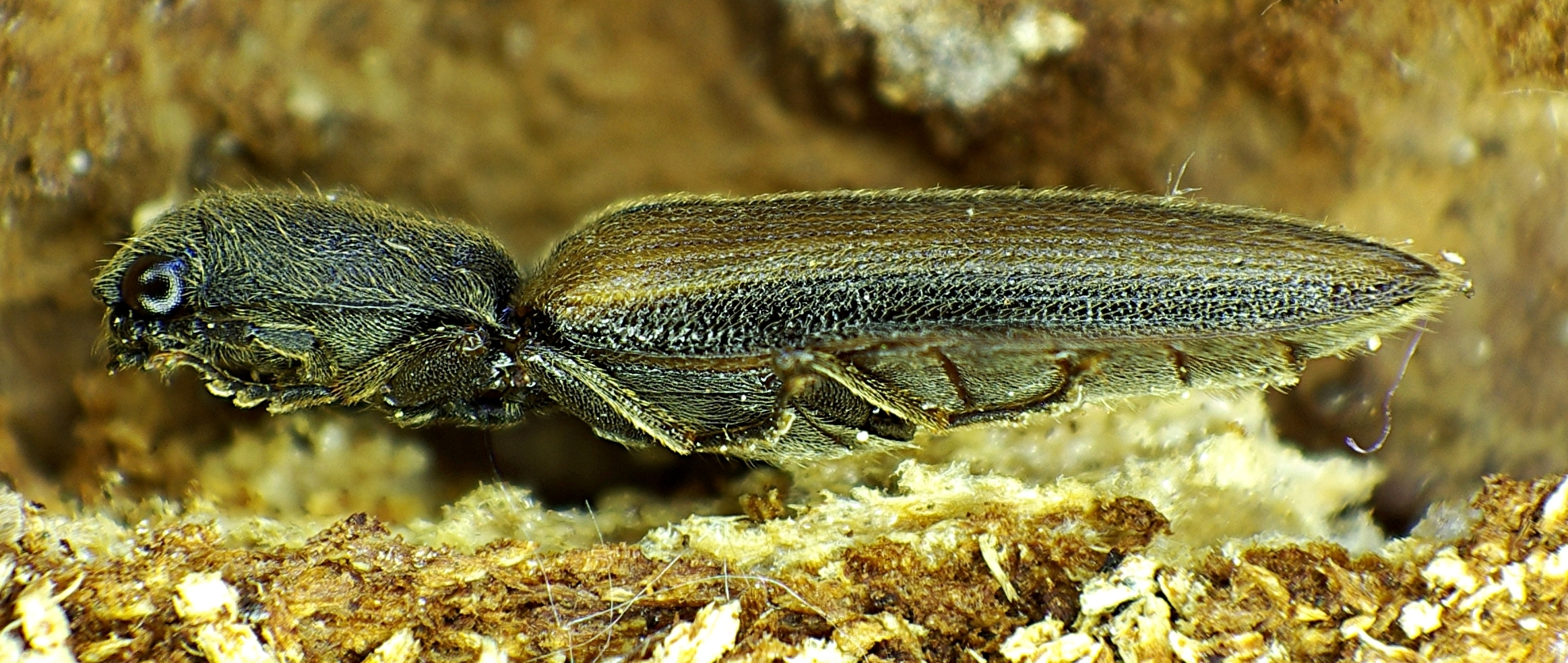 Athous bicolor male from Southern Germany